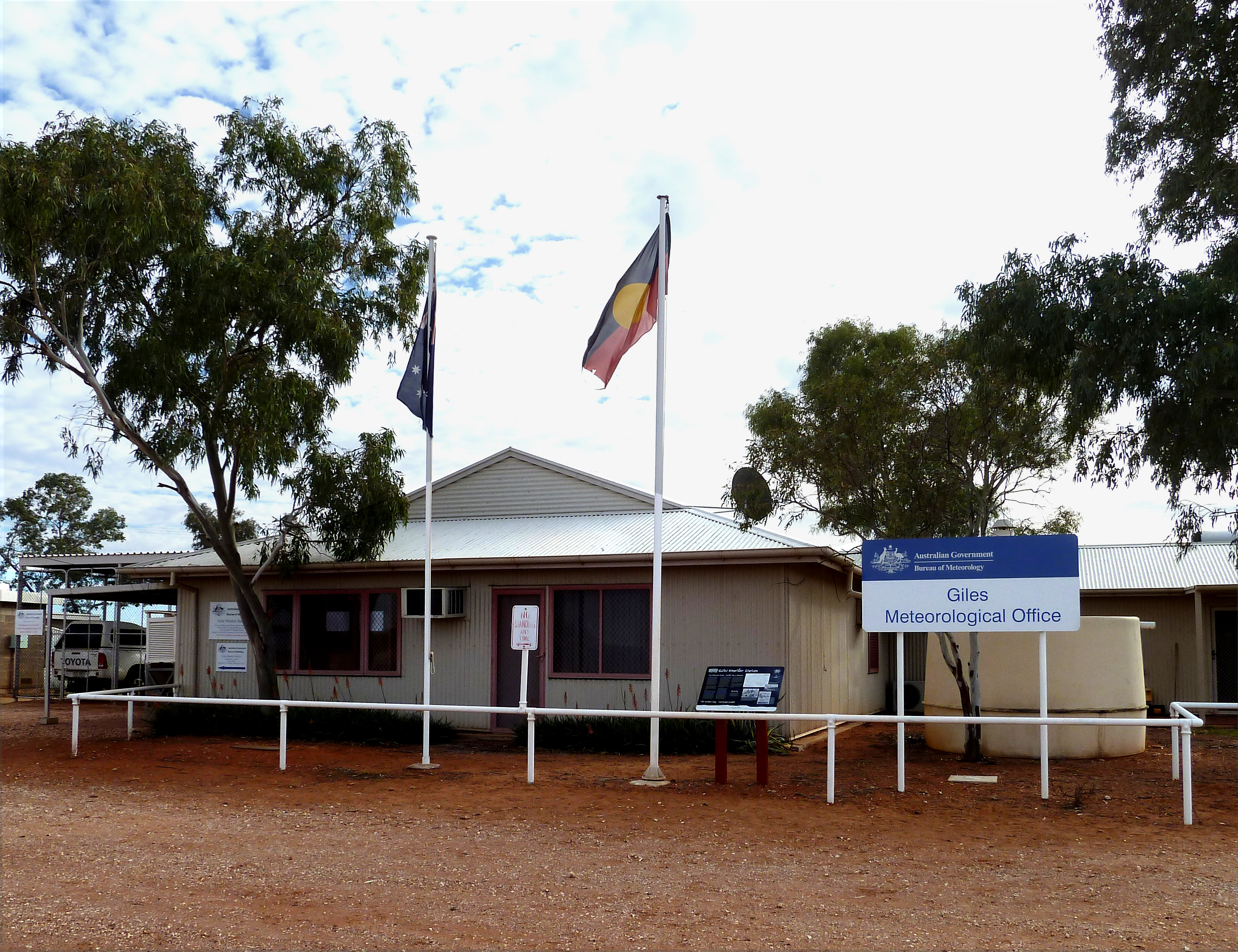 Giles Weather Station in Western Australia, the location of which was selected by Len Beadell in 1955.